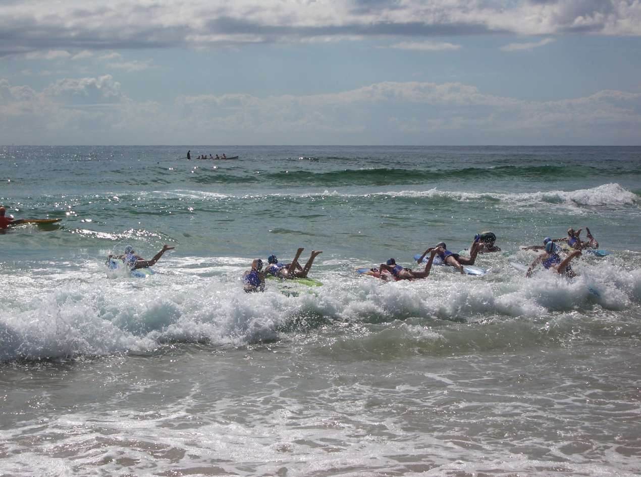 Nippers at their swimming competition Surf Race. Author: Klaus-Dieter Liss Date: 12.11.2005